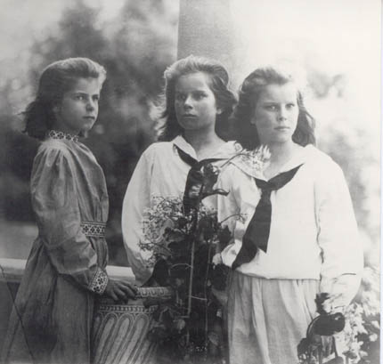 Photograph (l. to r.) of Dorothy Trimble Tiffany (later Dorothy Burlingham) with her twin sisters Julia and Louise